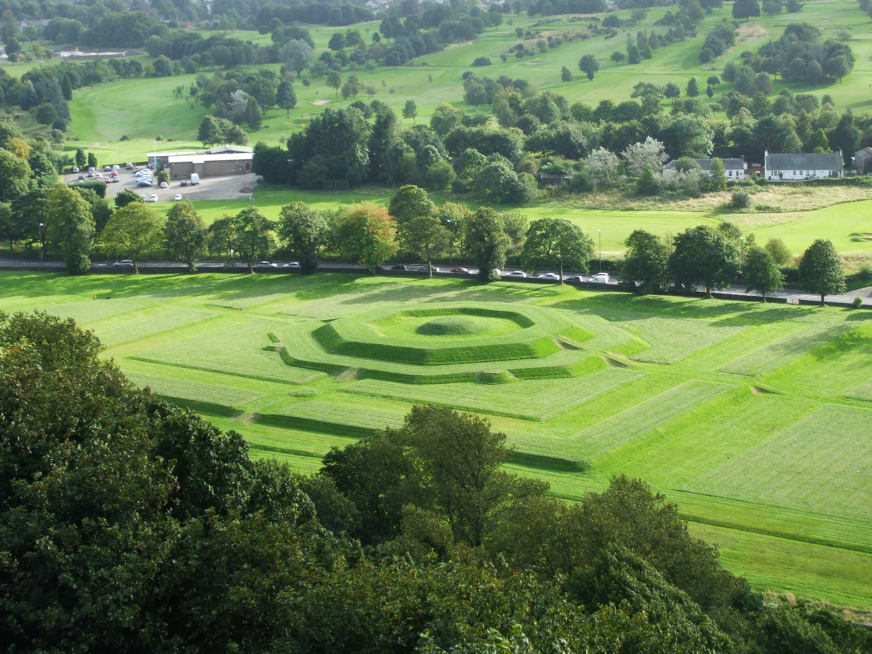 The Kings Knot from Stirling Castle